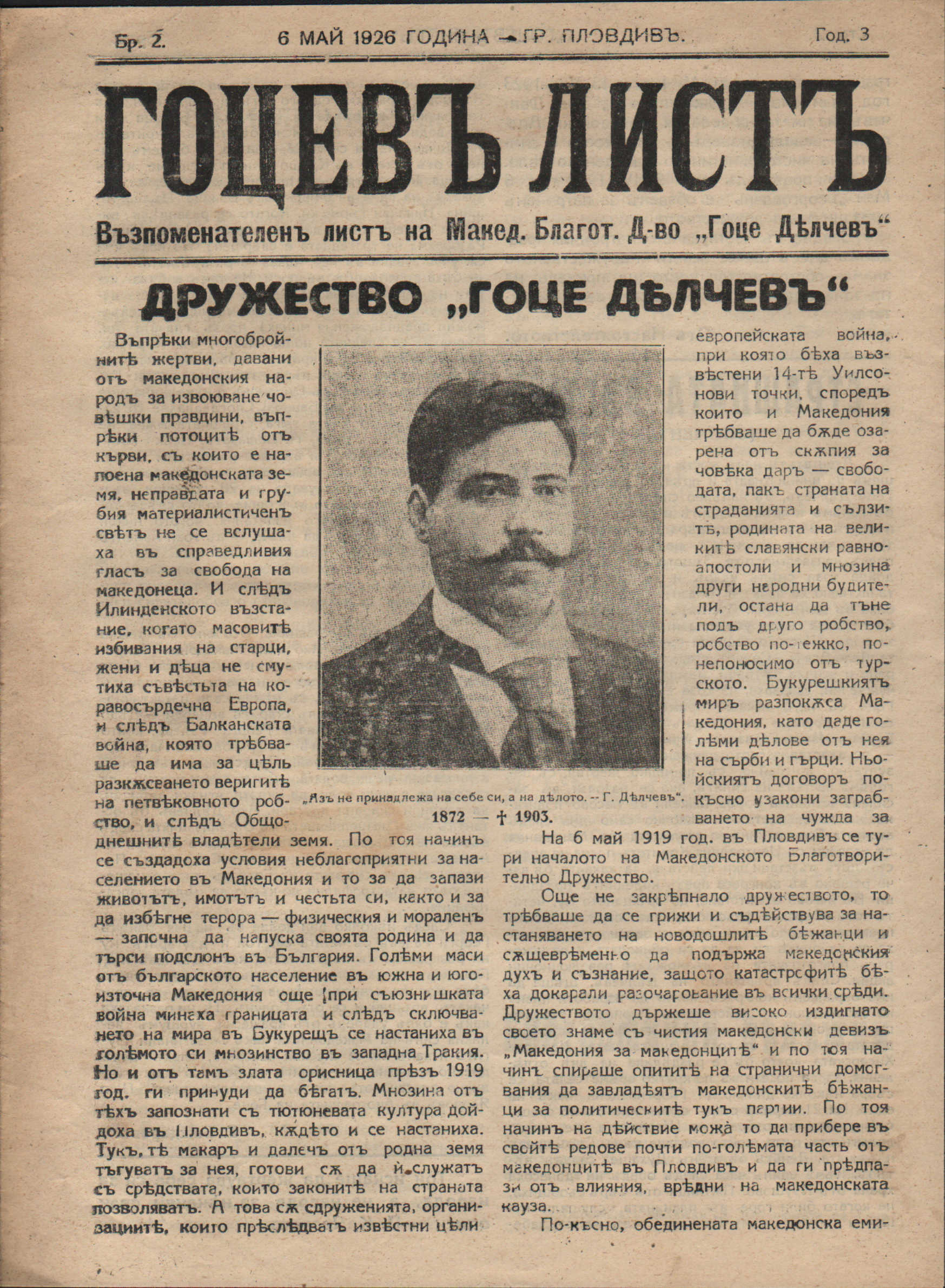 Gotsev List 6 May 1926